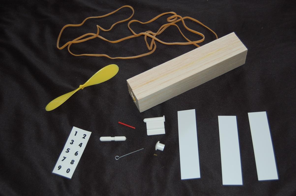 Cub scout space derby model rocket kit